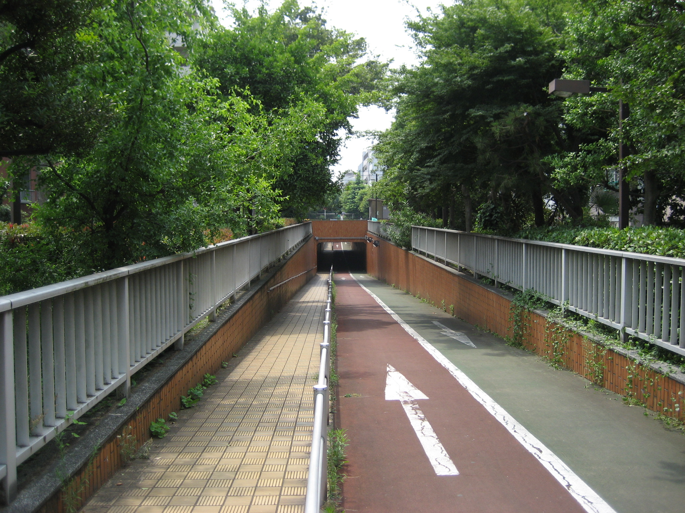 Suzakigawa Ryokudokoen Underpass in Toyo, Koto, Tokyo